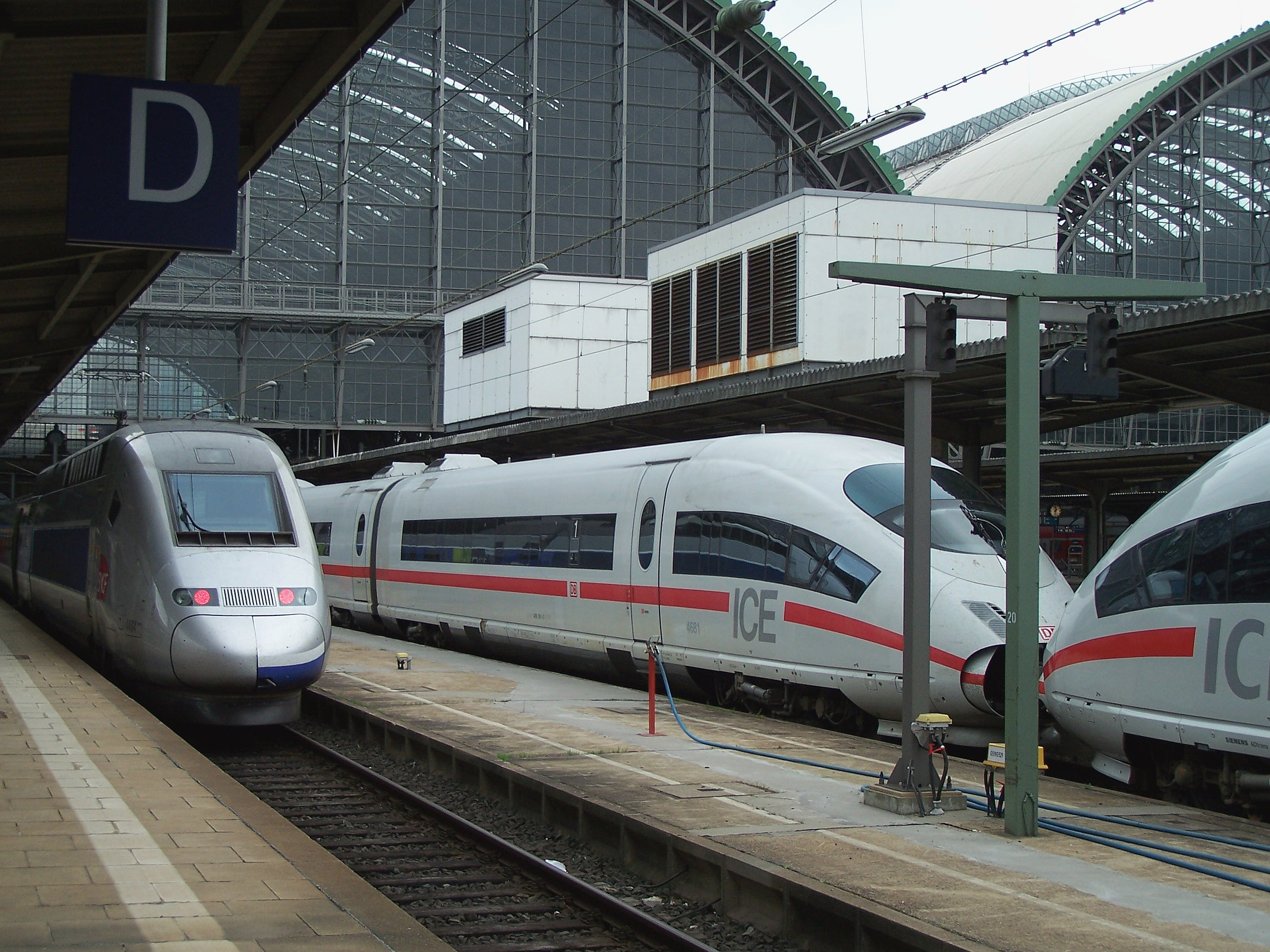 TGV POS No 4404 with an ICE 3 in the Frankfurt Central Station in Frankfurt am Main-Bahnhofsviertel.